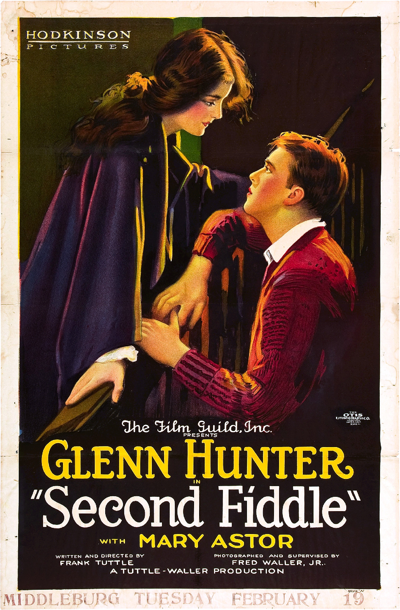 Poster for the American film Second Fiddle (1923). The item has no copyright markings on it as can be seen in the links above. At bottom is Style A; the theater showing the film stamped "Middleburg Tuesday February 19" at the bottom of the poster.